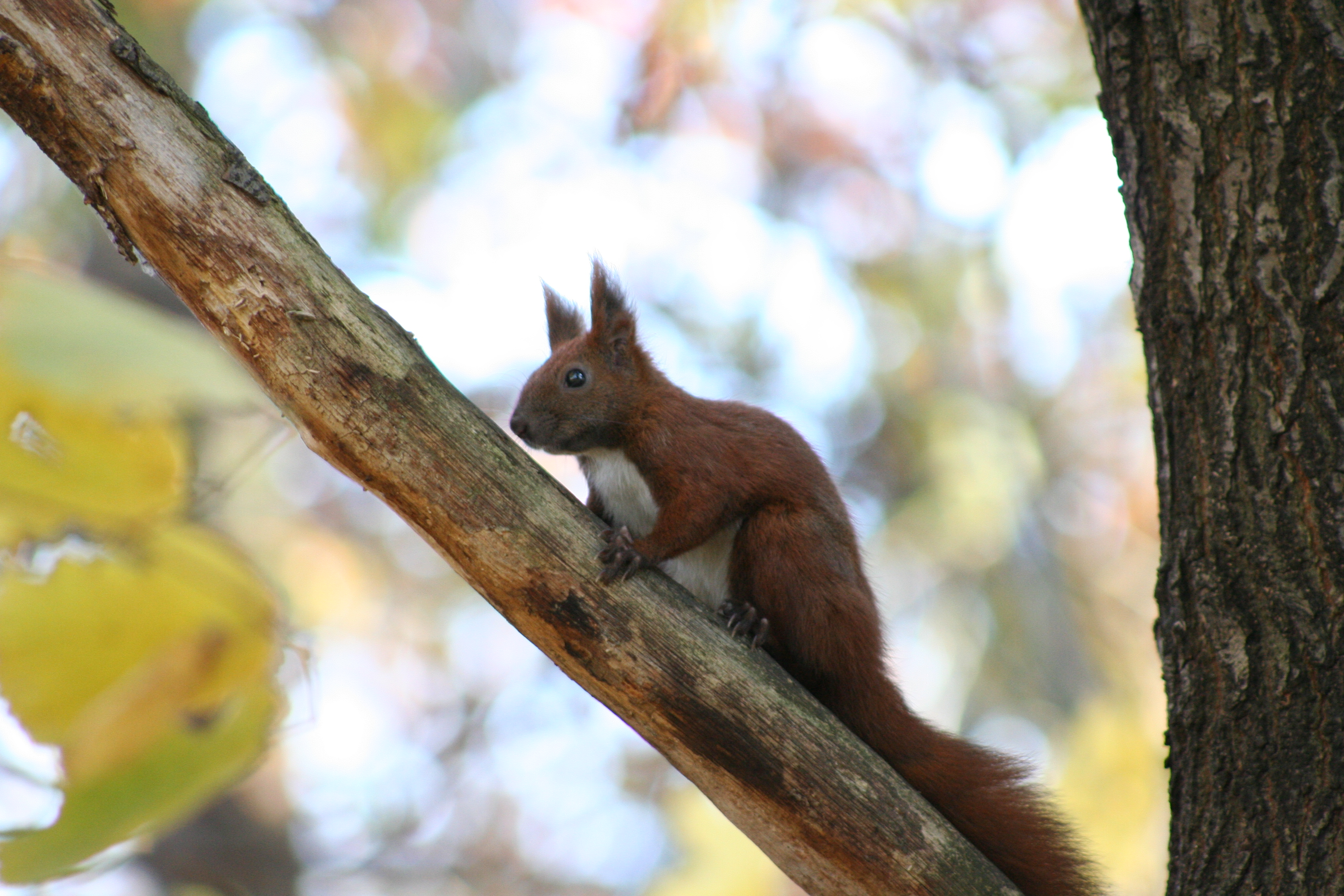 Sciurus vulgaris (Eurasian red squirrel) - photograph taken in Cieplice Spa near Jelenia Góra. Late October 2005.